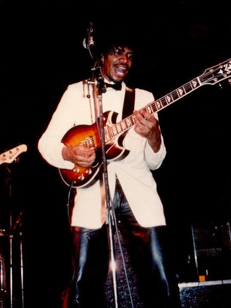 guitarist Kelvyn Bell